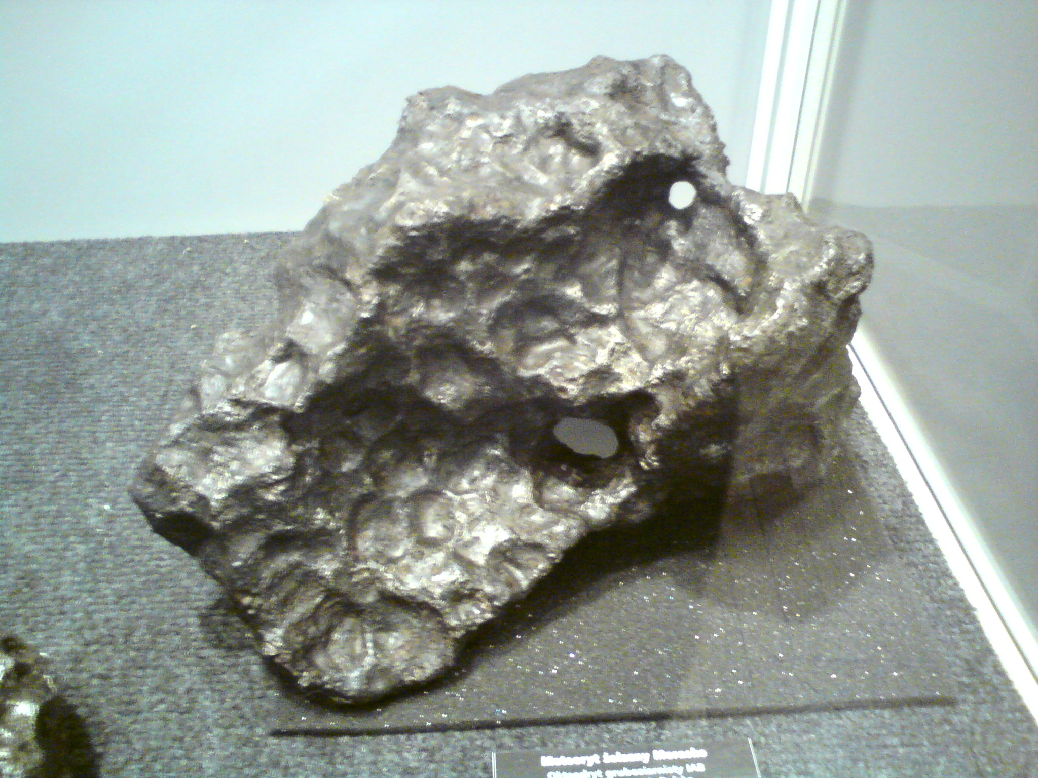 Meteorite found in Nature reserve Meteoryt Morasko, Poland